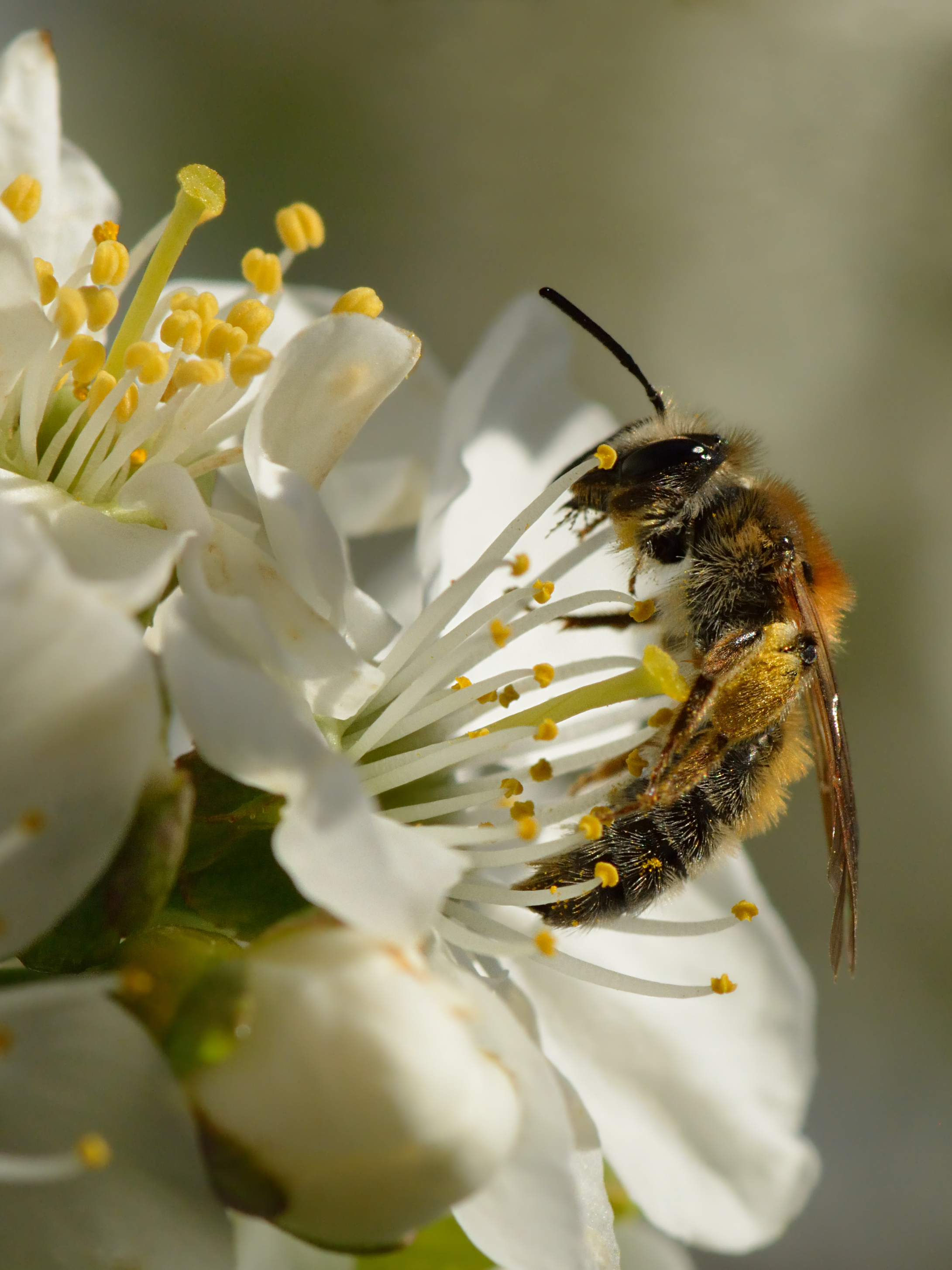 Female mining bee (Andrena) on the sour cherry (Prunus cerasus) flower. Keila, Northwestern Estonia.